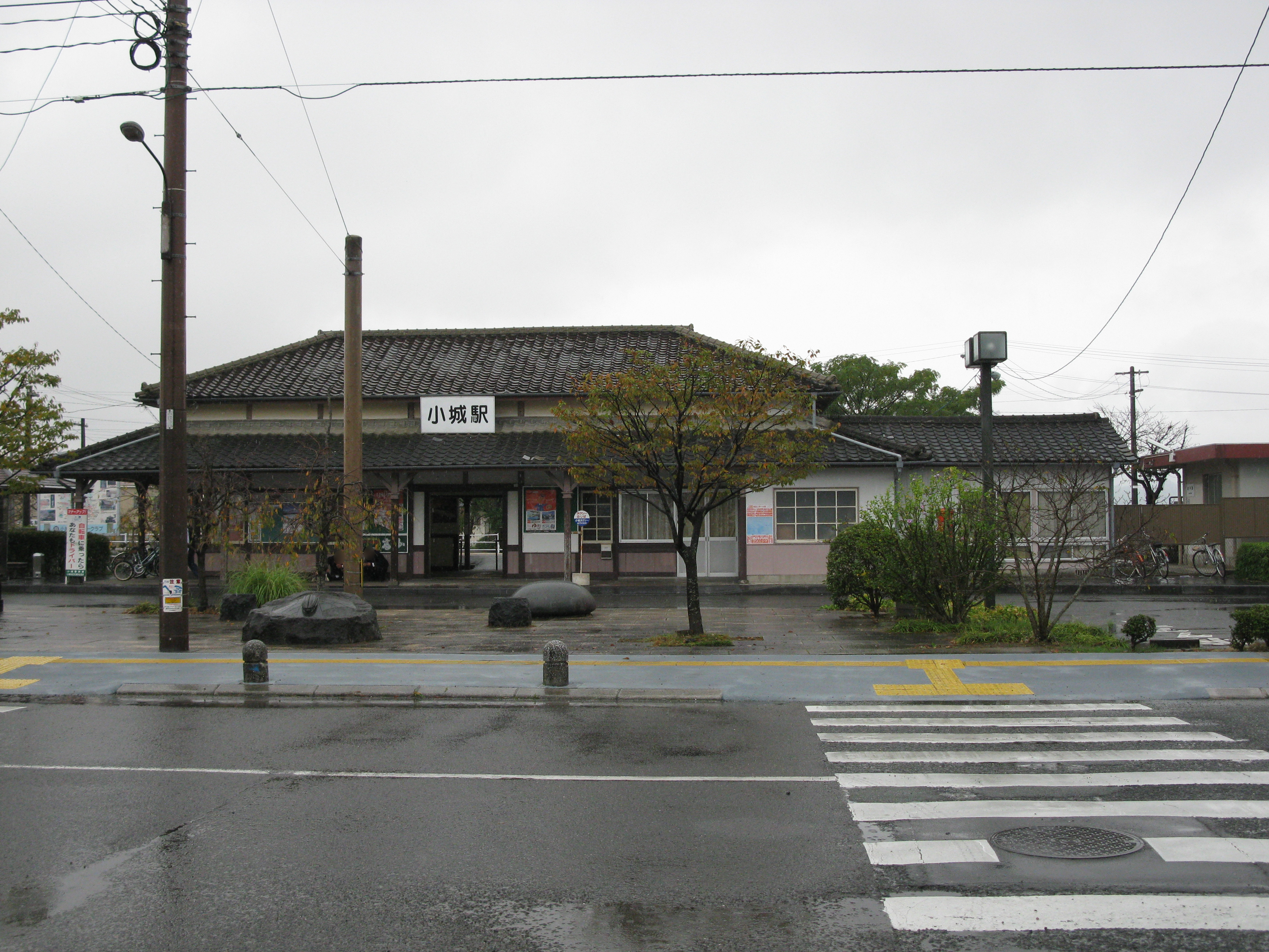 Ogi Station building (Kyushu Railway Karatsu Line)